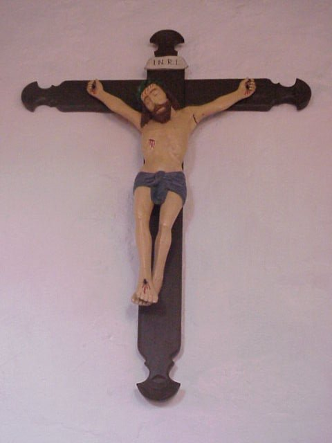 Crucifix in Faster Kirke. Figure of Christ is from the middleage and the cross is of newer date.